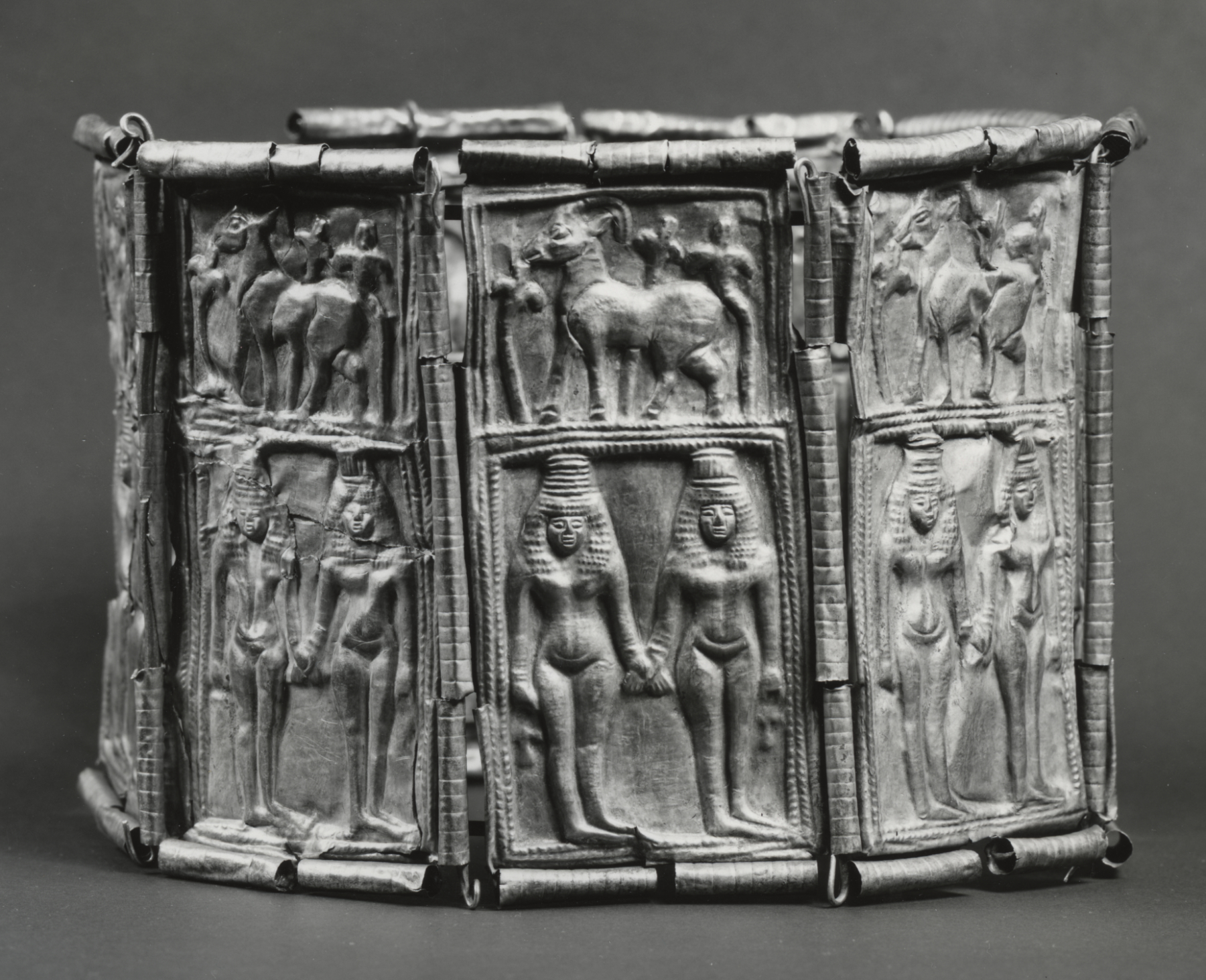 This gold crown of nine rectangular plaques in stamped relief depicts fertility goddesses and ibexes.